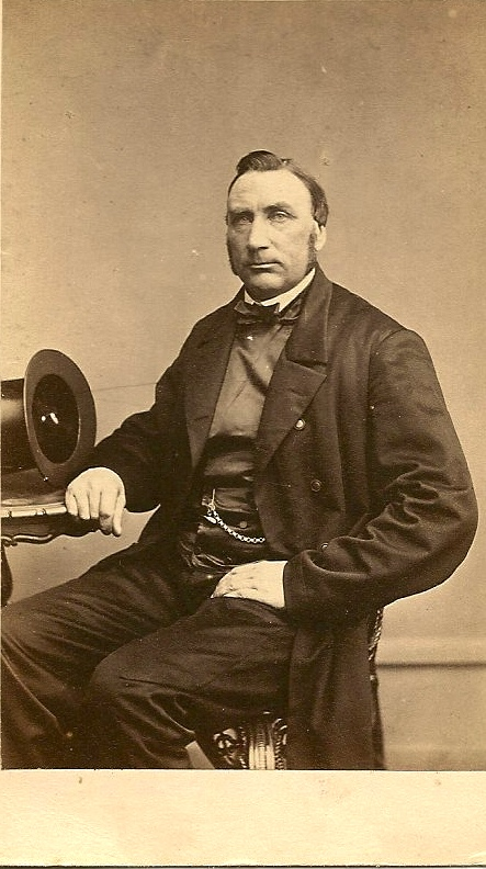 Swedish politician from late nineteenth century